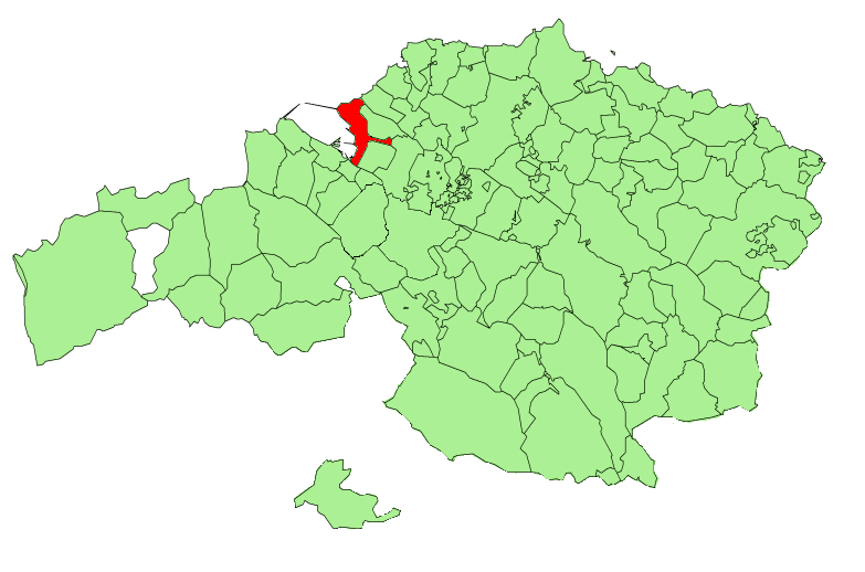 Map of Getxo